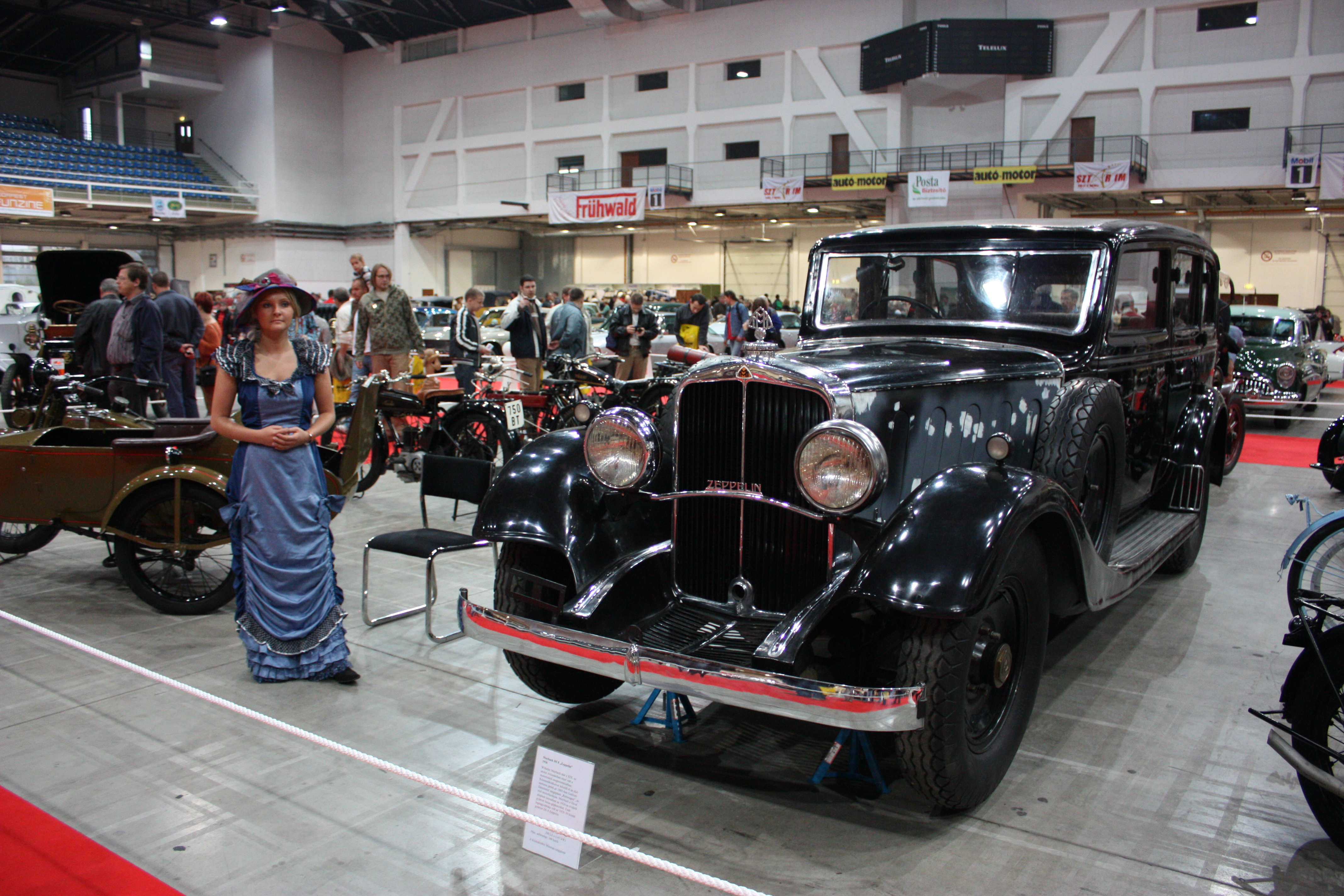 Oldtimer Show 2008.